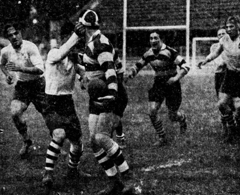 Matchday 14 of 1936-37 Italian rugby union championship: Rugby Rome beat Amatori Milan (in white jersey) 6-3 at Campo Testaccio, Rome, and went on topping the league and winning the title for its 2nd time overall